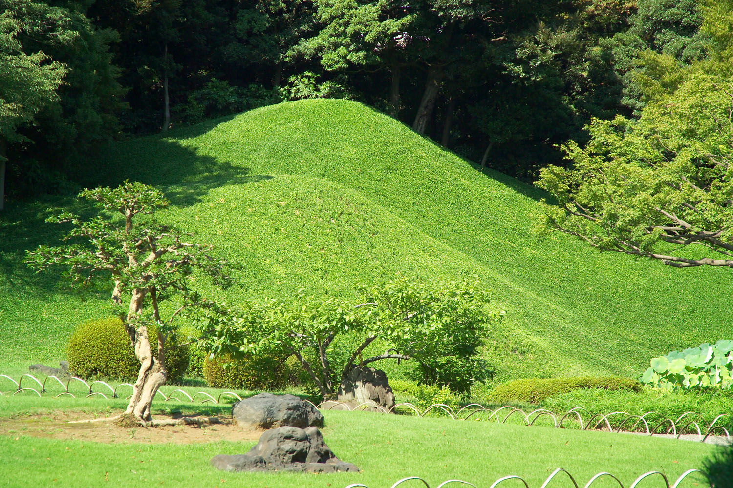 Koishikawa Korakuen is a Japanese garden in Tokyo, Japan. The Mito Tokugawa family established the garden near their residence, close to the castle. Now, Korakuen is an oasis of greenery amid the bustle of downtown Tokyo, adjacent to Tokyo Dome and the Korakuen amusement park. I took this photo and contribute my rights in the file to the public domain; individuals and organizations retain rights to images in it.